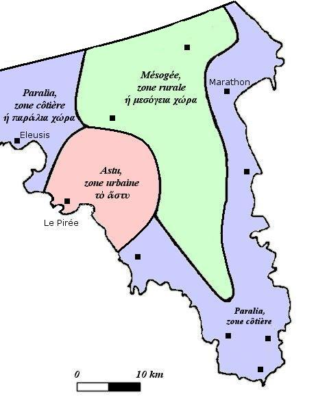 The Attic territory distribution after Clisthène's reform. (507-501 BC)